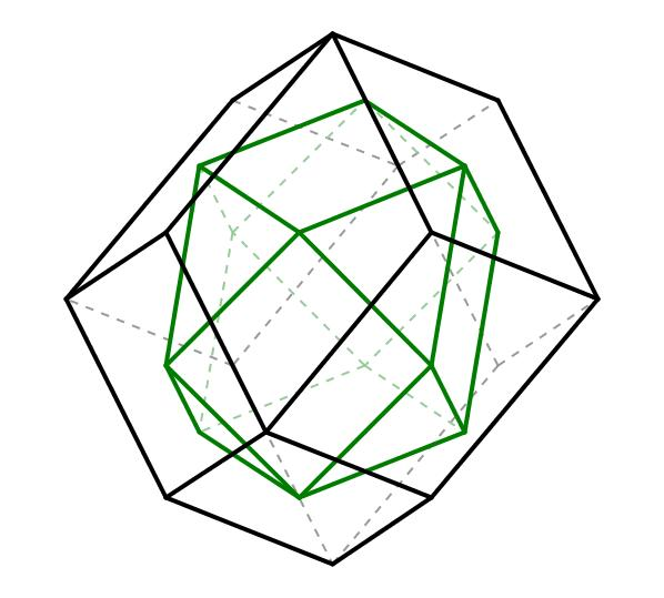 The edges of two dual polyhedra: a rhombic dodecahedron (black)and a cuboctahedron (green).